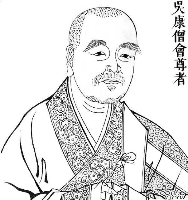 Portrait of budddhist monk Kang Senghui (康僧会).